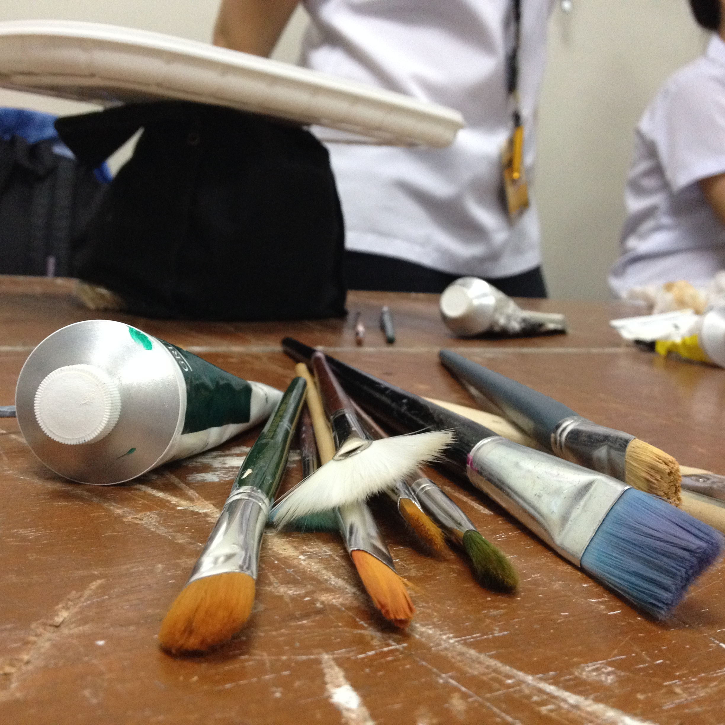 Different kind of brushes.